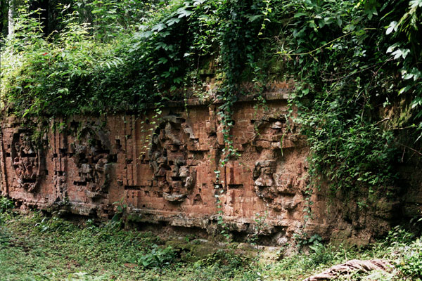 S Group Wall. Sambor Prei Kuk. Cambodia